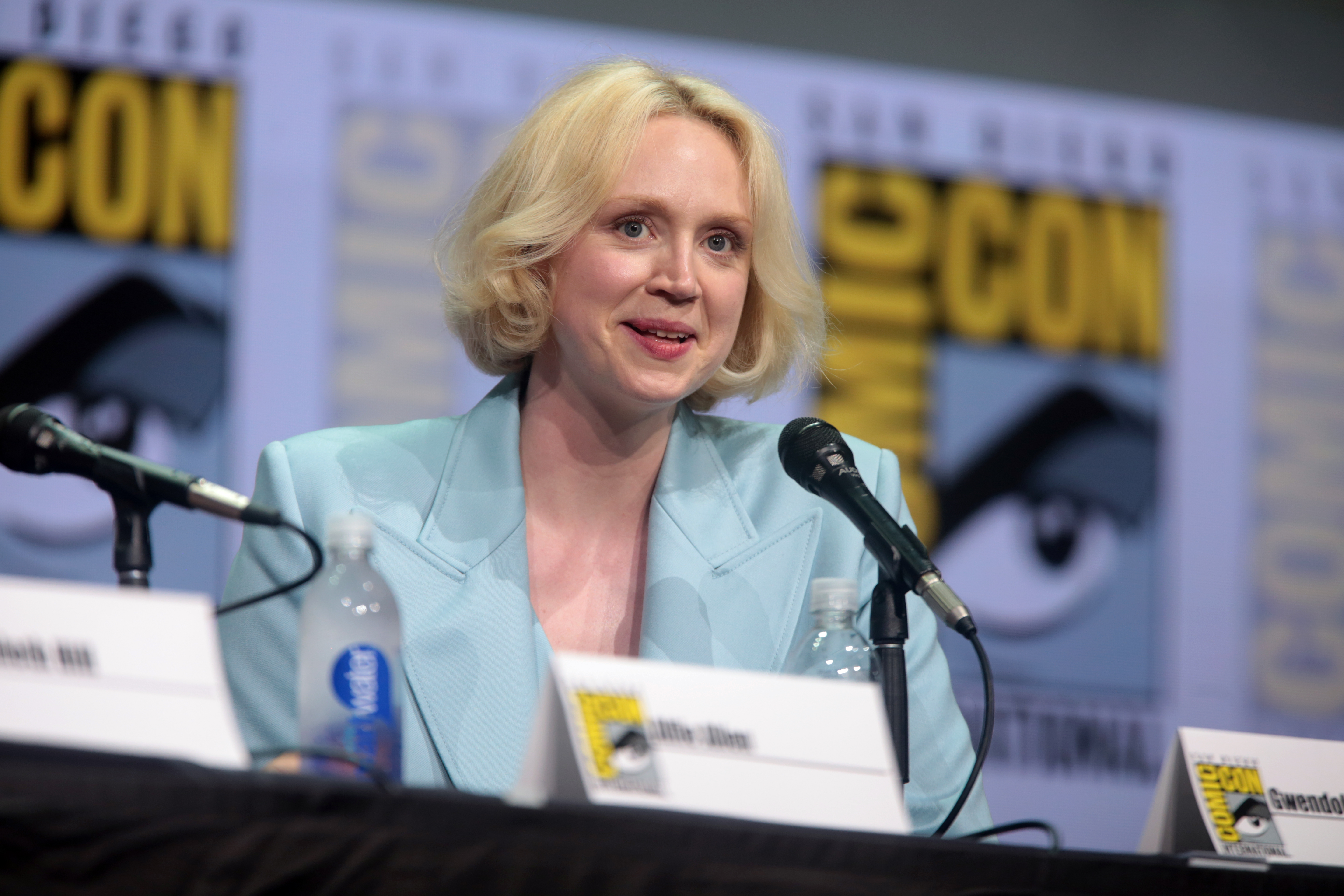 Gwendoline Christie speaking at the 2017 San Diego Comic Con International, for "Game of Thrones", at the San Diego Convention Center in San Diego, California.